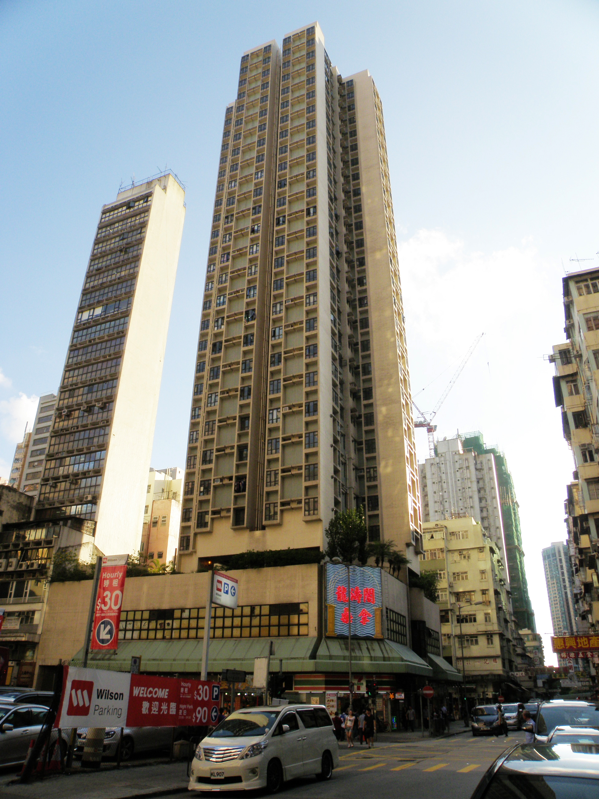 12 Soy Street in Mong Kok, Hong Kong.